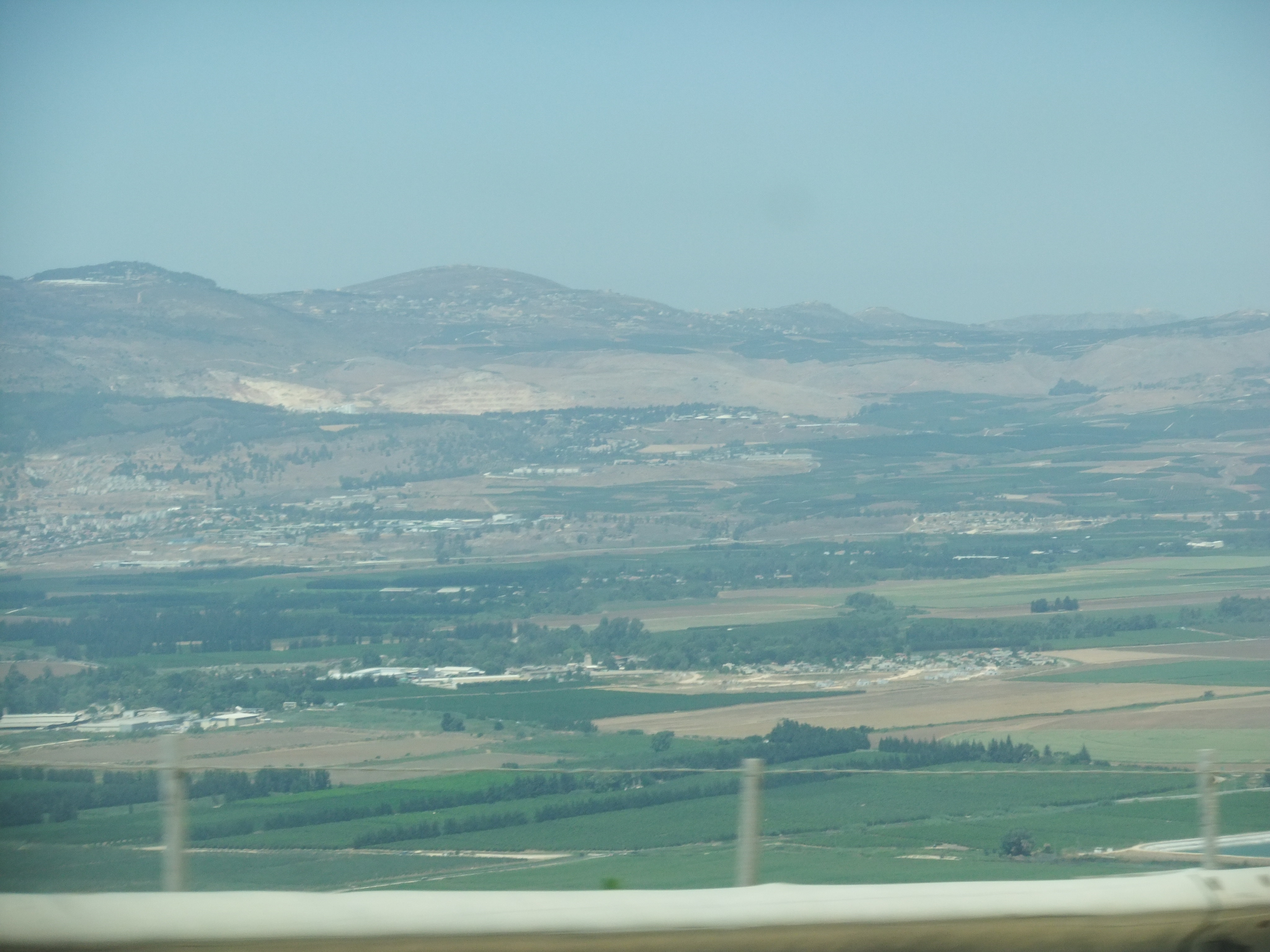 In the front left is the industry area of Amir. Behind it in the trees is the Kibbutz. In the front center is Sde Nehemiya. Seen are the industry area and the new houses. The older houses are hidden in the trees. Behind Sde Nehemia is Beit Hillel, hidden in the trees. Behind Beit Hillel is the industry zone of Kiryat Shmona. To its left are parts of Kiryat Shmona. To its right are Kfar Giladi and Tel Hai. Up on the mountain to the left is Misgav Am. To the right are villages in lebanon.